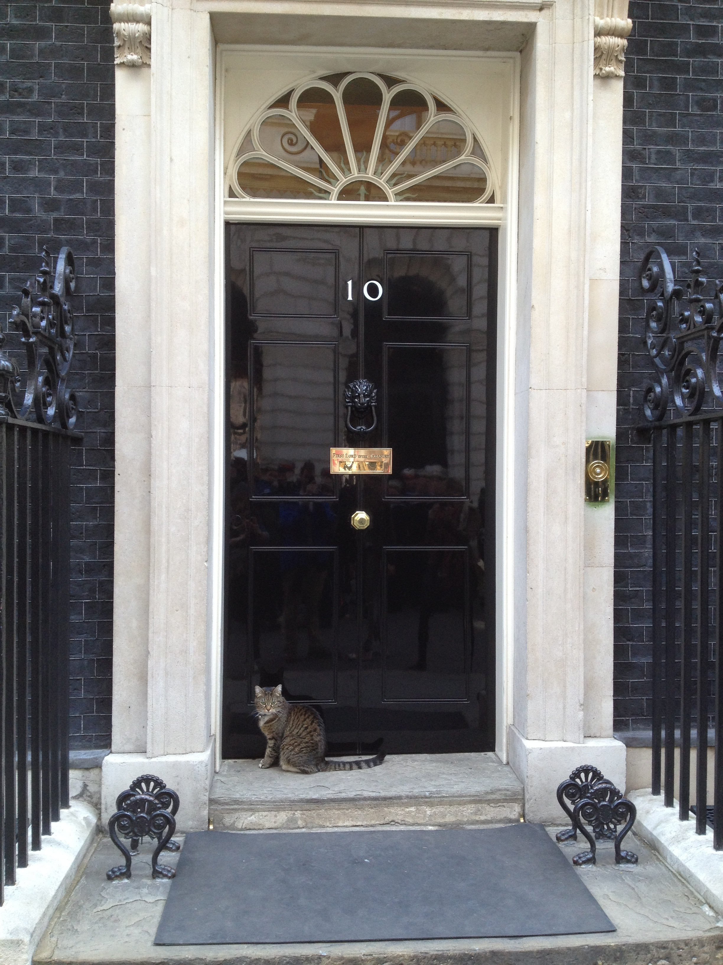 Freya at nr 10